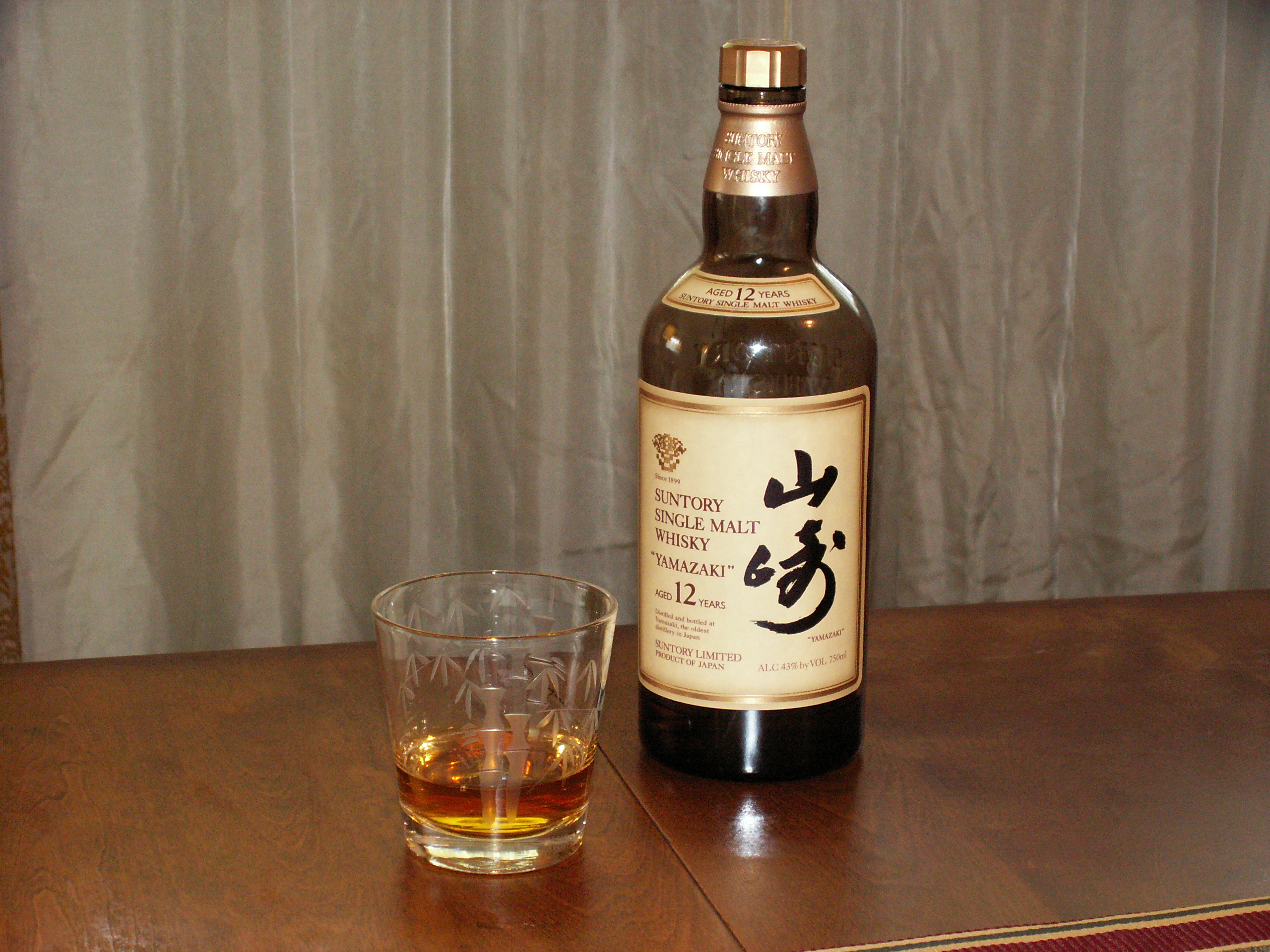 A glass and bottle of 12 year old Suntory Single Malt Whisky "Yamazaki"